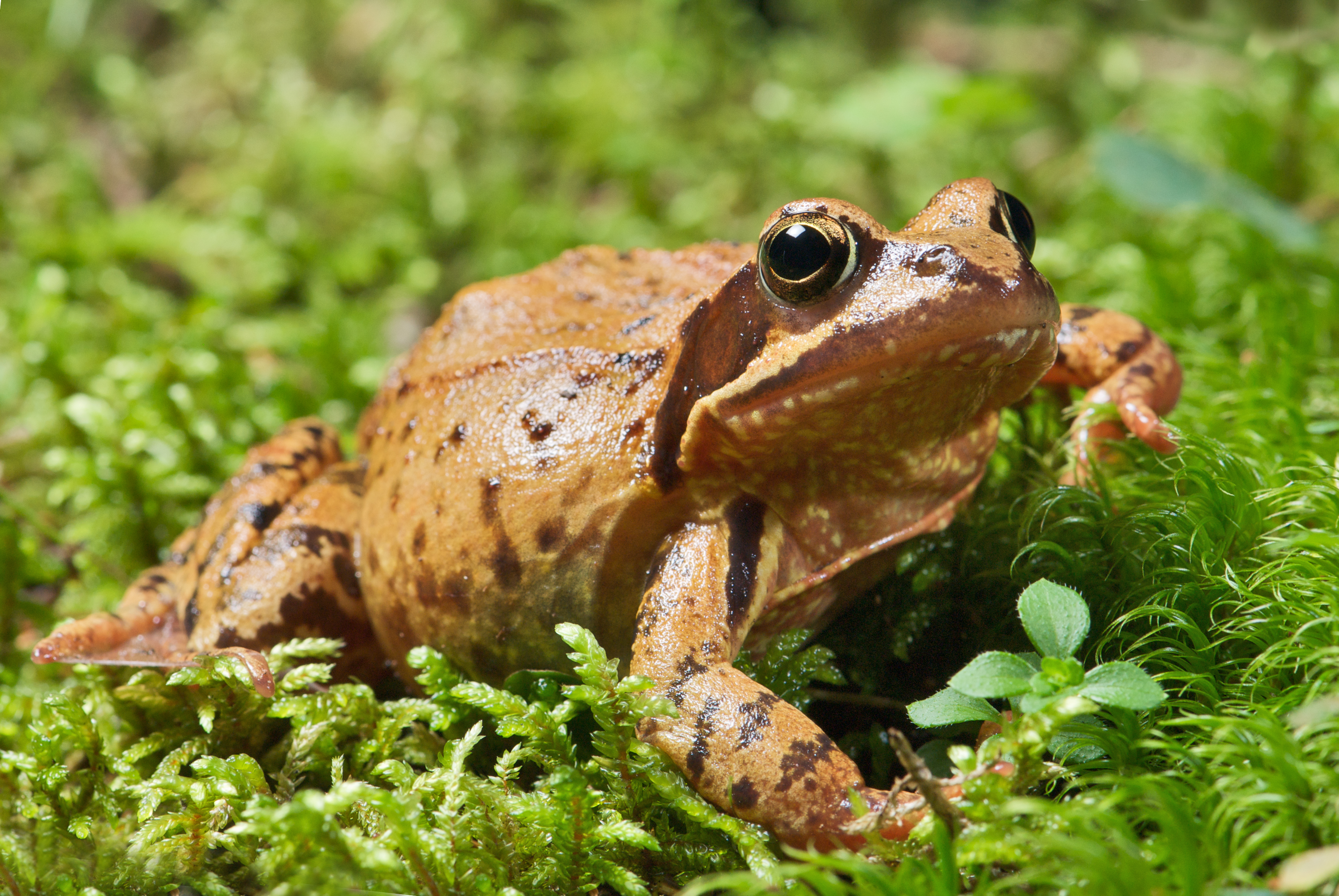 The Common Frog (Rana temporaria) can be found throughout much of Europe. The specimen in the picture is a fully-grown female with a length of about 90 mm – measured from head to abdomen.